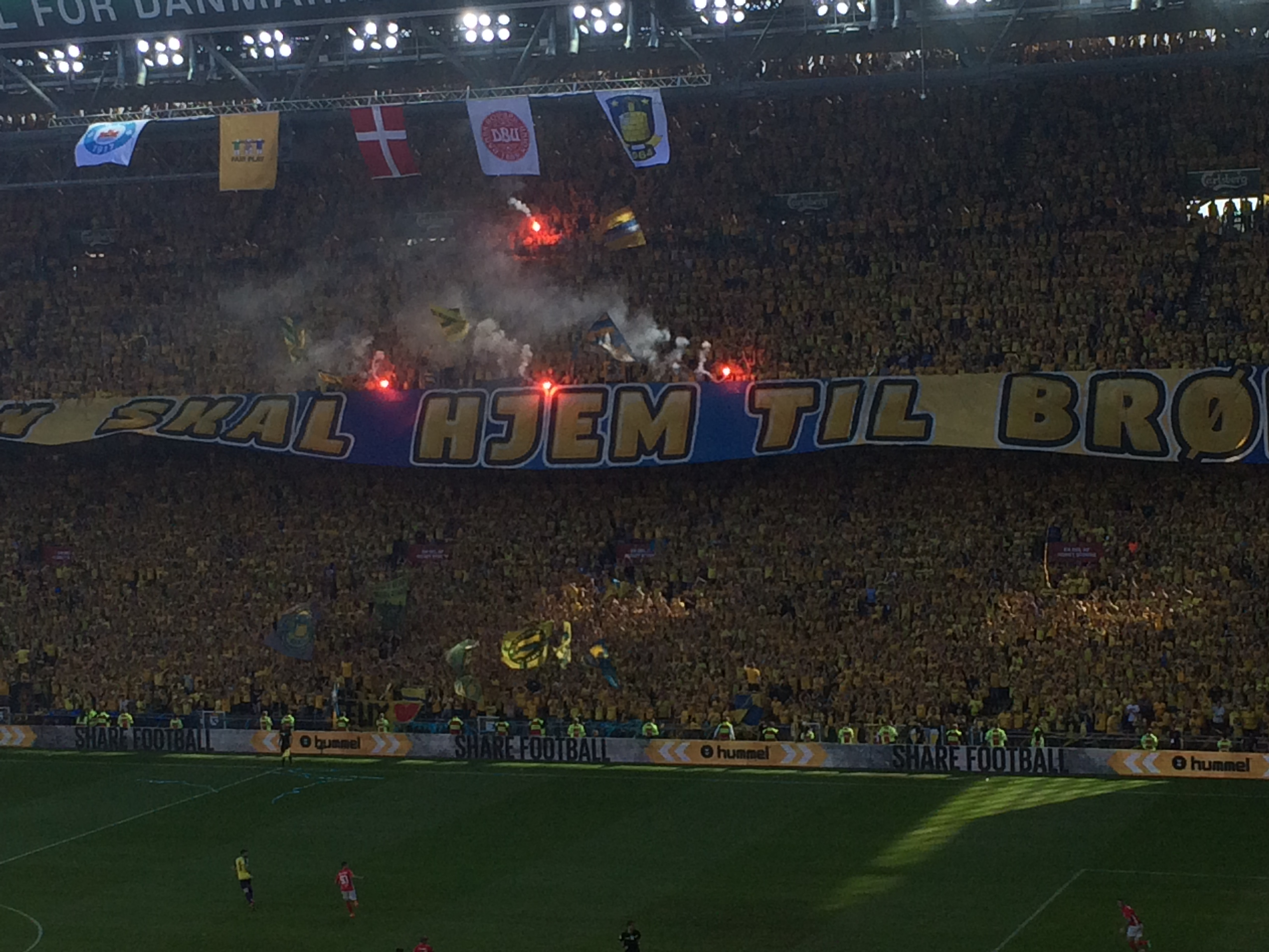 Brondby won the cup